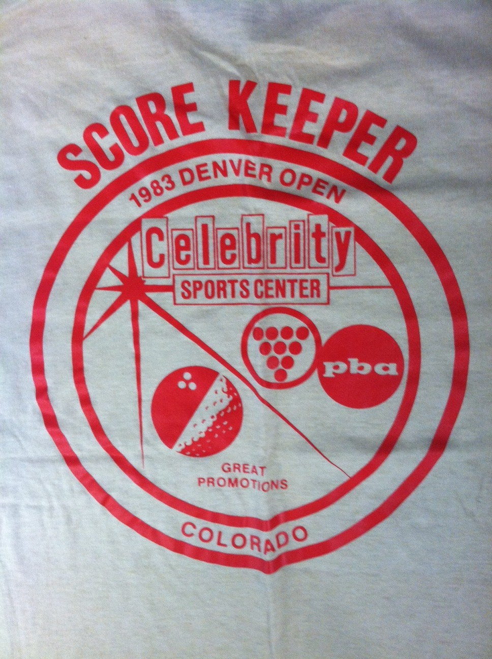 Bowling t-shirt made in 1983 for Celebrity Sports Center in Denver, Co